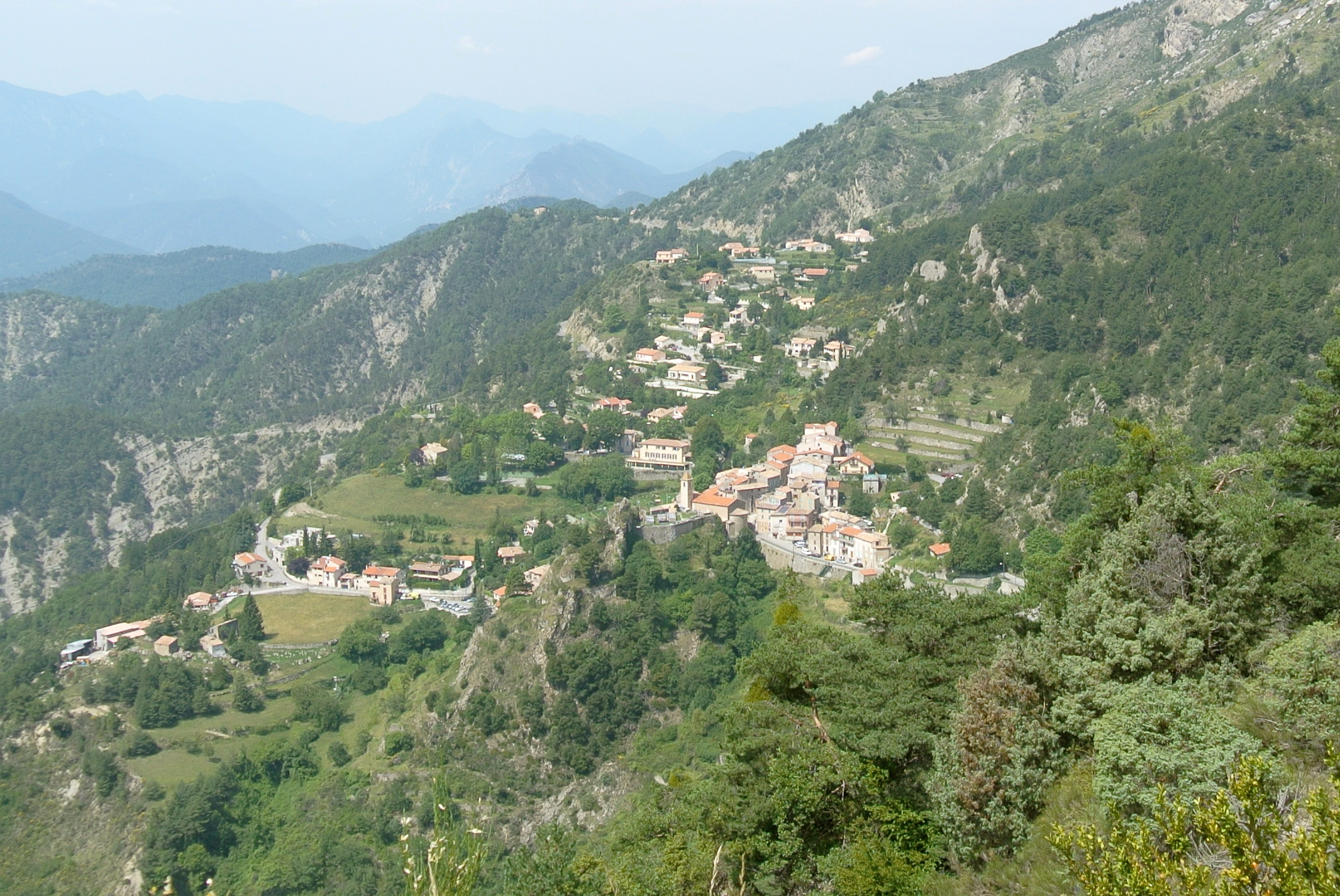 Toudon seen from the east, cime de la Clappe on the right, high part of the Val d'Estéron in the background.